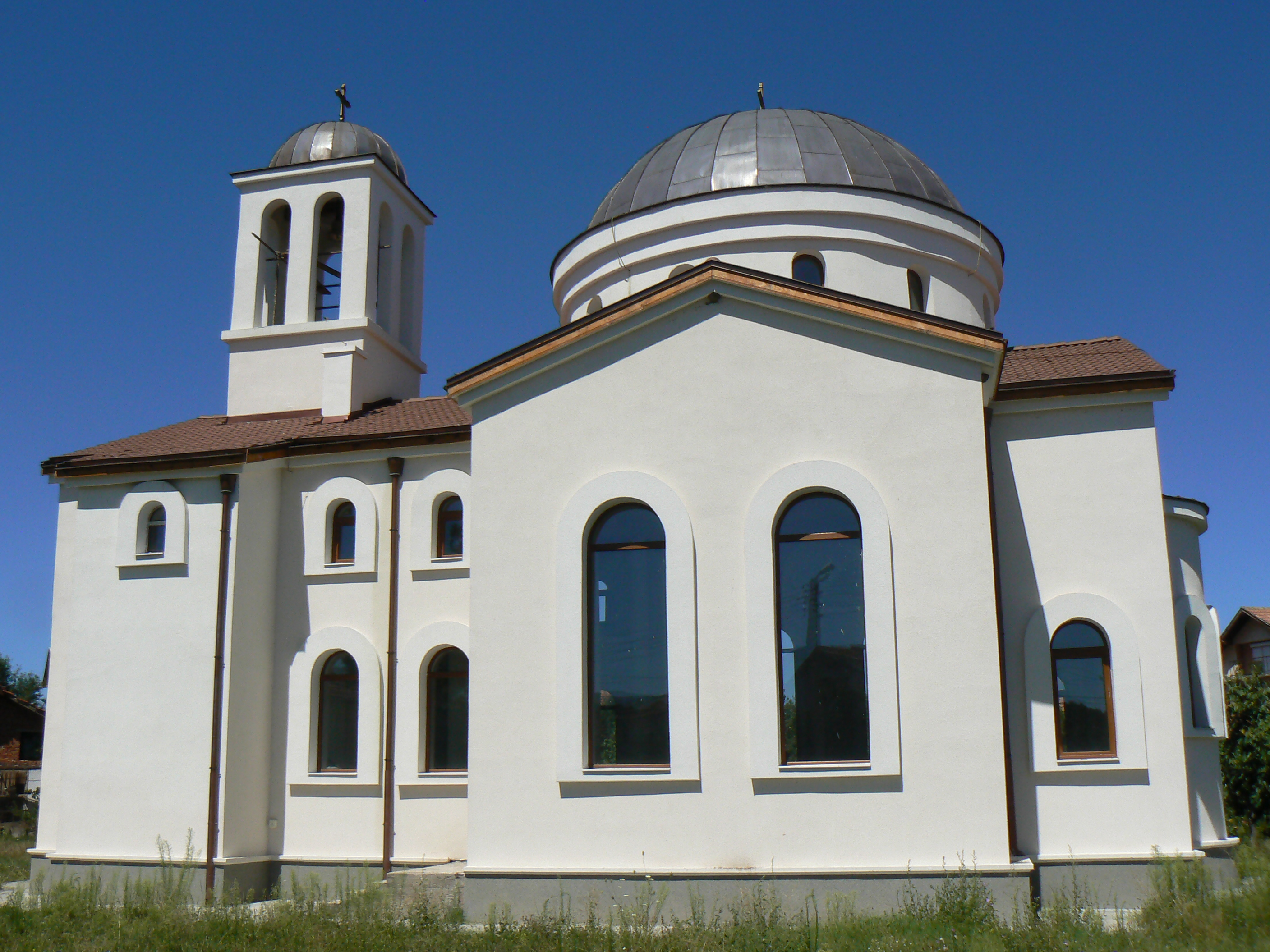 Church "Saint George" in village Yabalkovo, Kyustendil District, Bulgaria